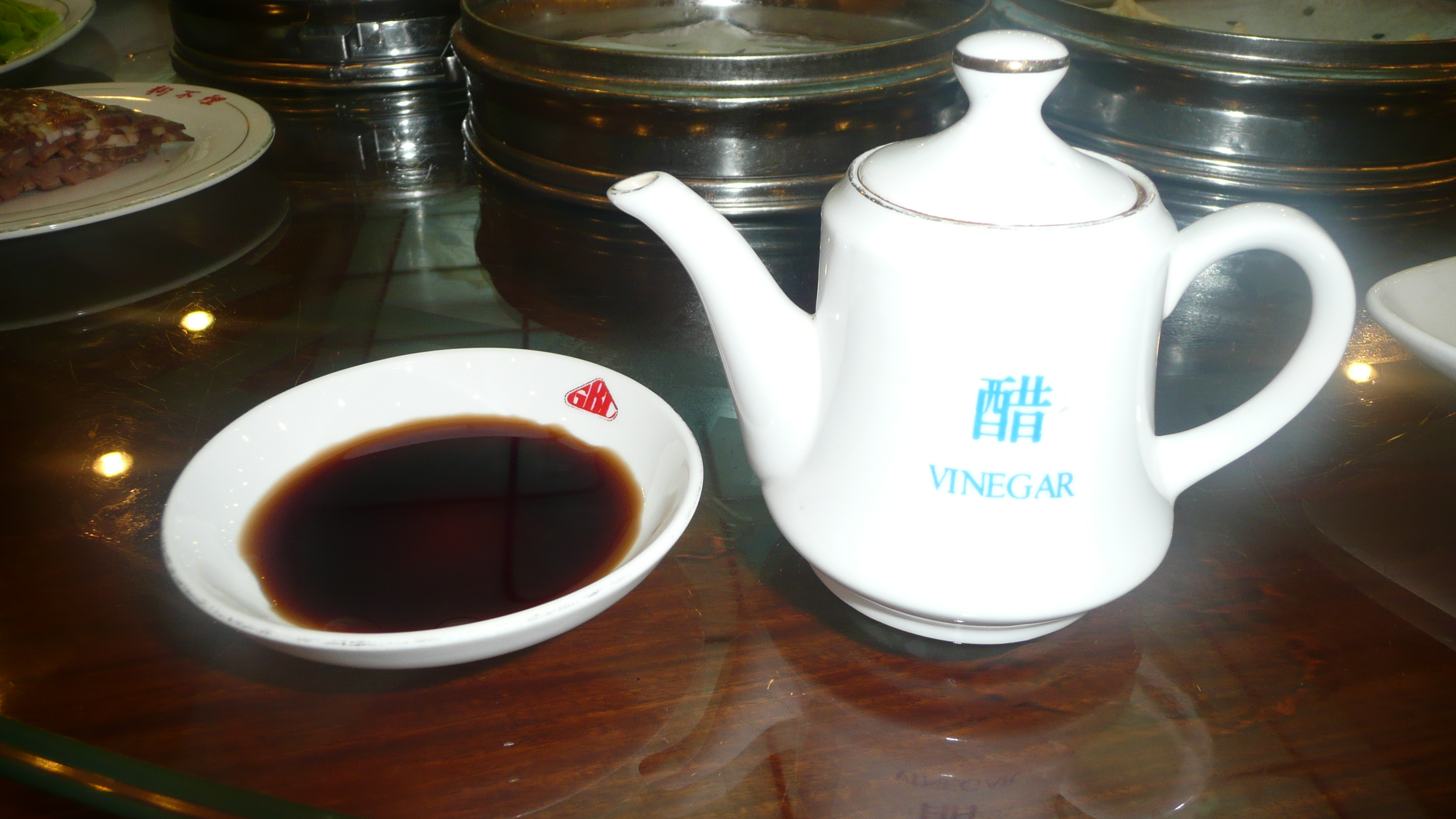 Chinese brown rice vinegar, in a restaurant in Tianjin